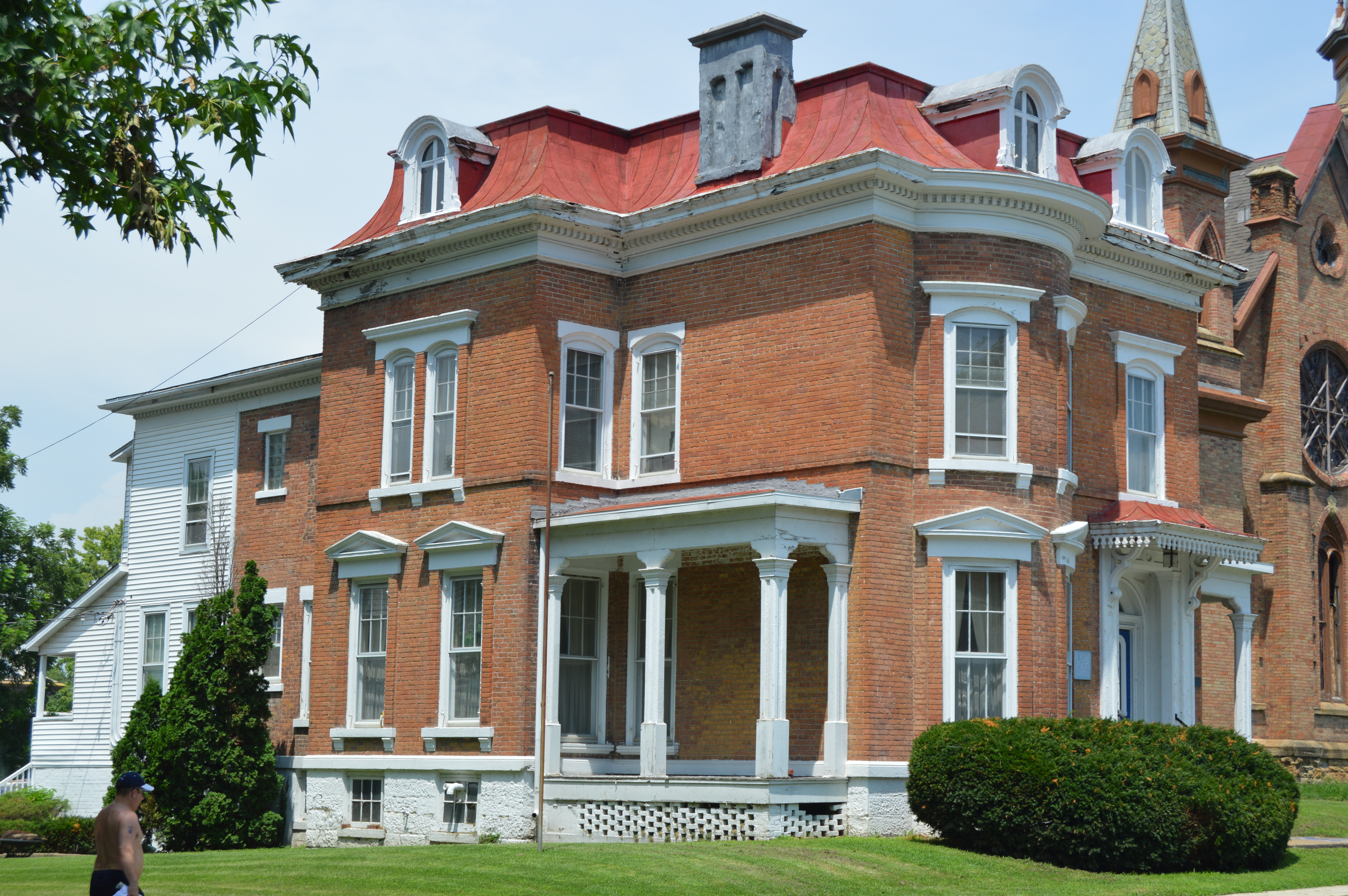 Southwestern side and front of the E. H. Harrison House, located at 220 N. Fourth Street in Keokuk, Iowa, United States. Built in 1857 and now a law office, it is listed on the National Register of Historic Places.